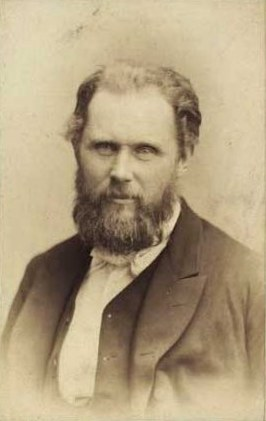 August Saabye, Danish sculptor